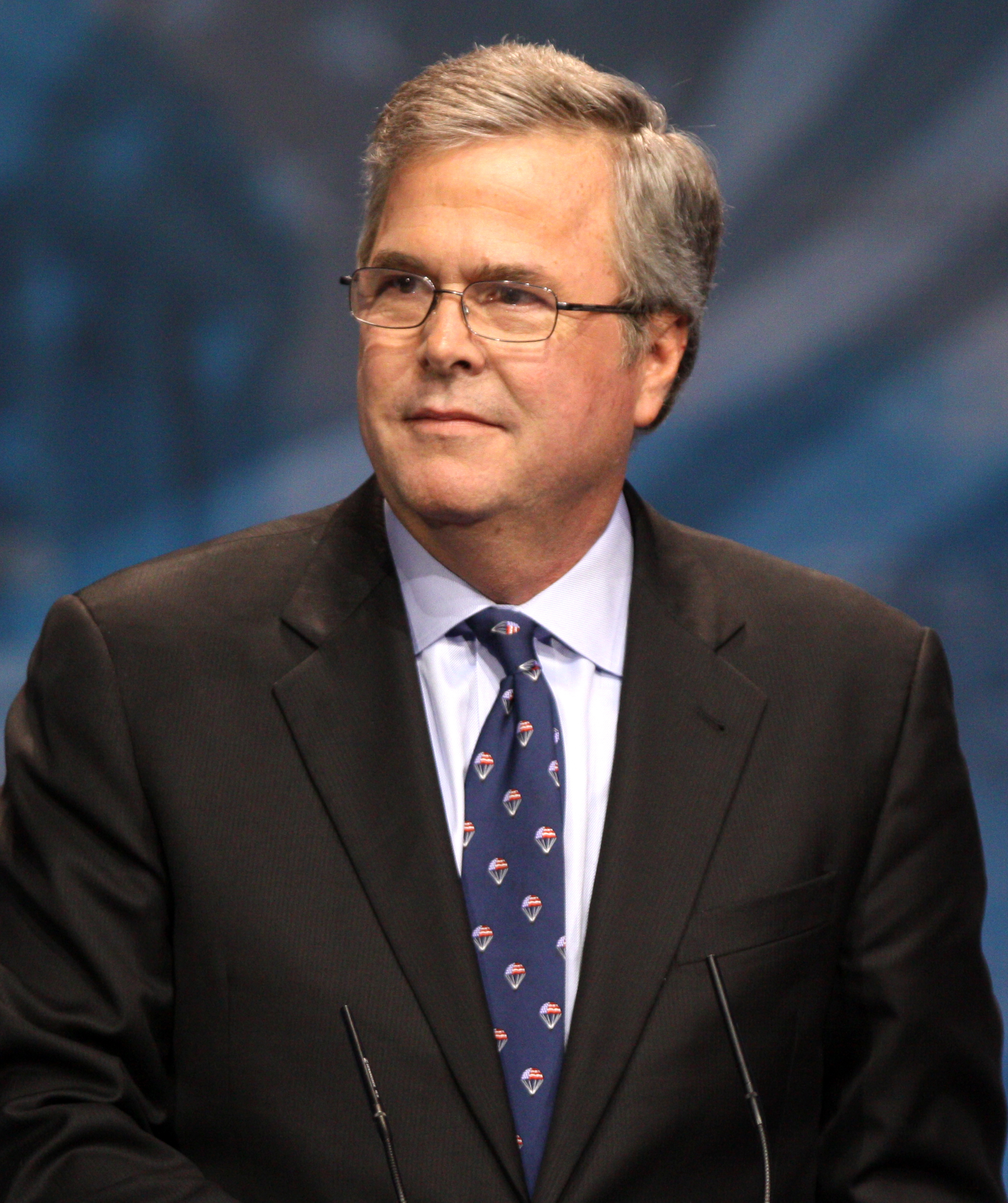 Jeb Bush speaking at the 2013 CPAC in Washington D.C. on March 16, 2013.